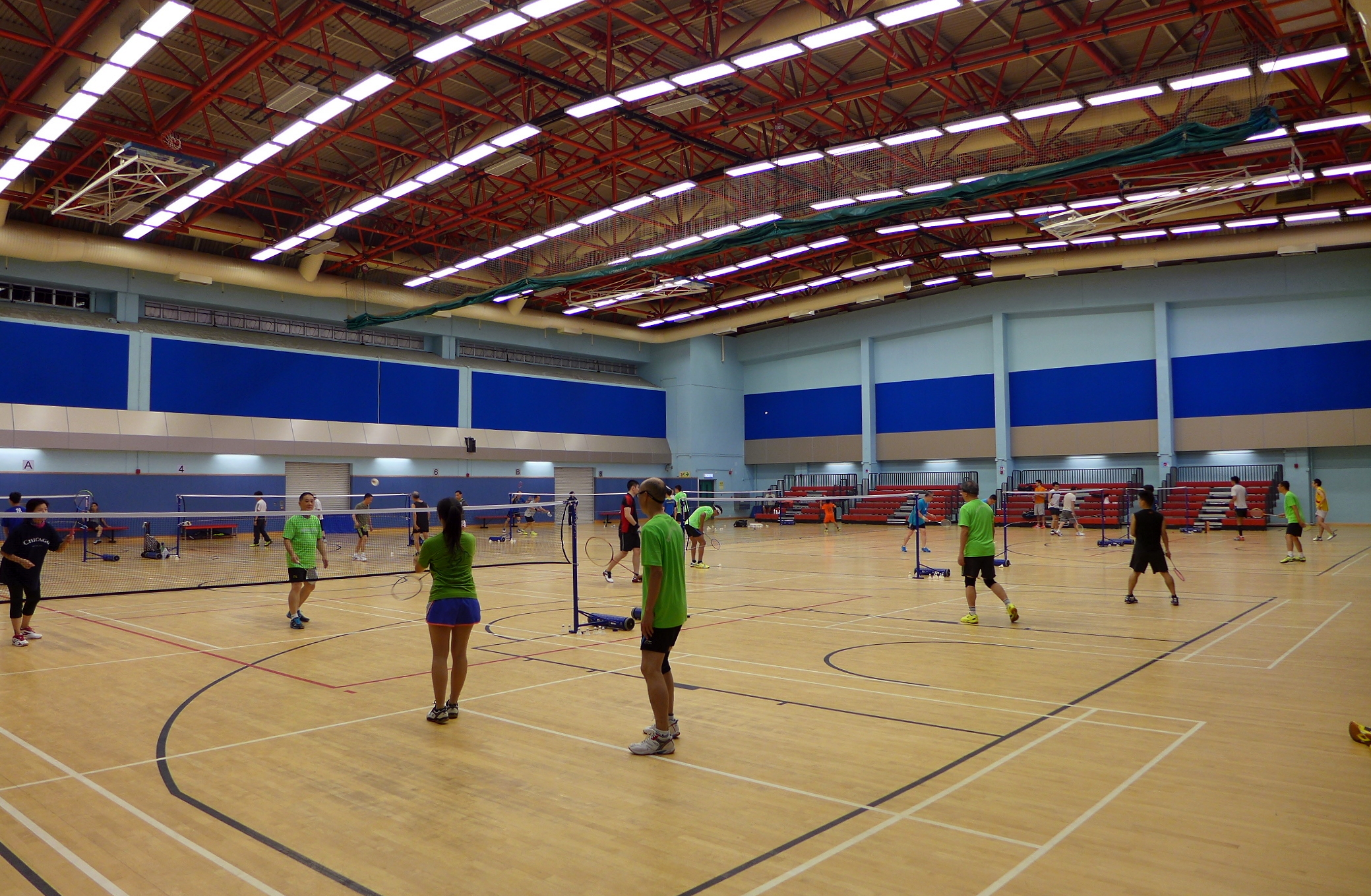 Pei Ho Street Sports Centre Multi Purpose Arena